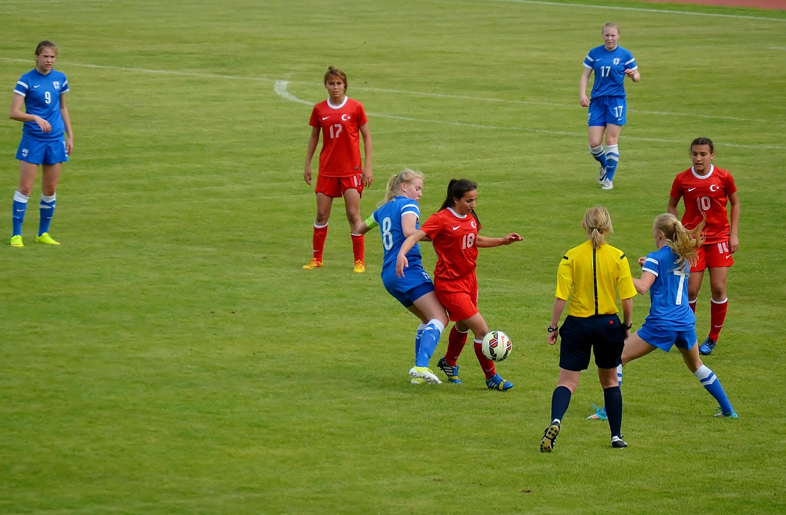 2015 UEFA Women's Under-17 Championship qualification Elite round match Finland vs Turkey